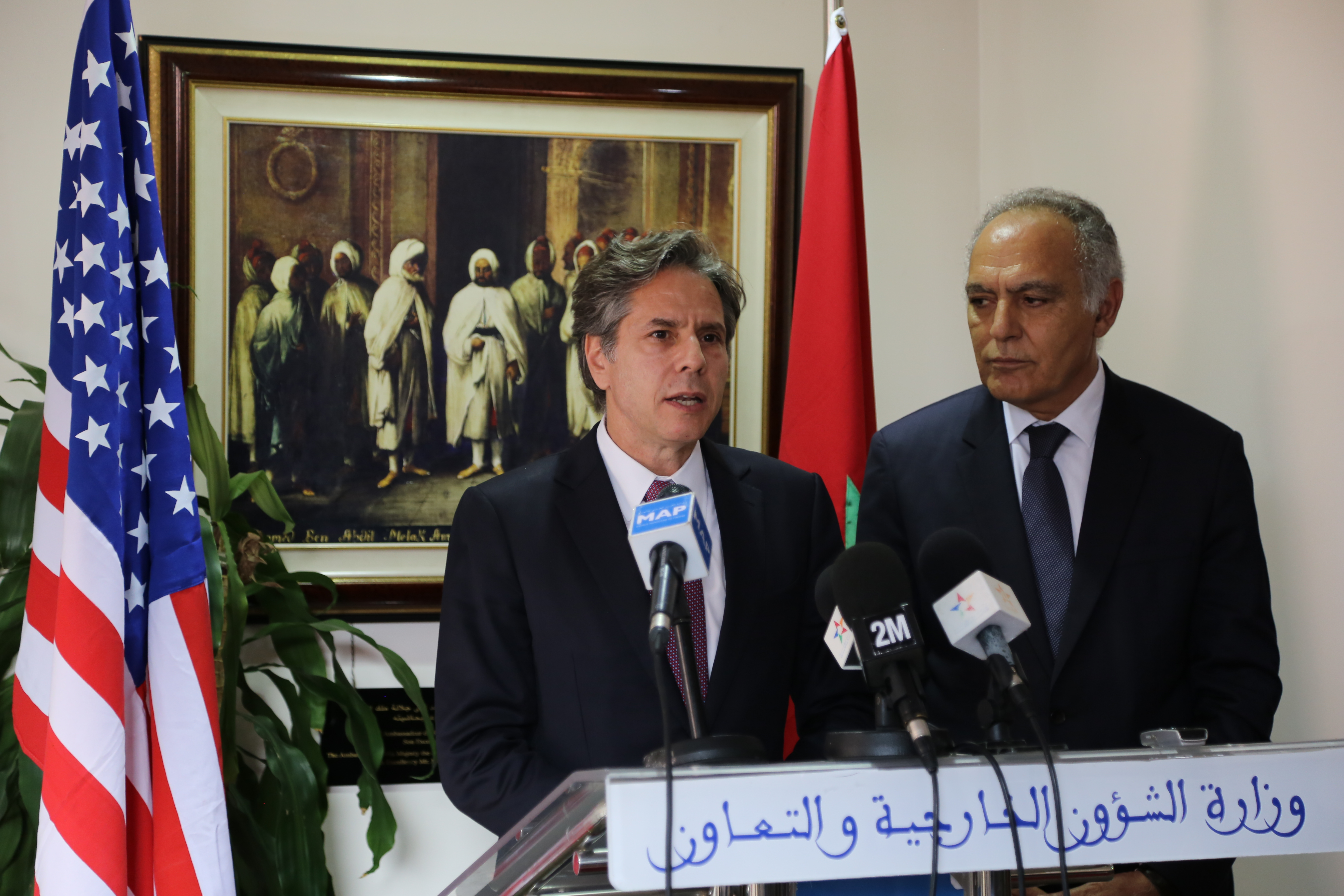 Foreign Minister Salaheddine Mezouar looks on as Deputy Secretary of State Antony "Tony" Blinken makes remarks at a news conference on July 20, 2016 in Morocco. [State Department Photo/ Public Domain]